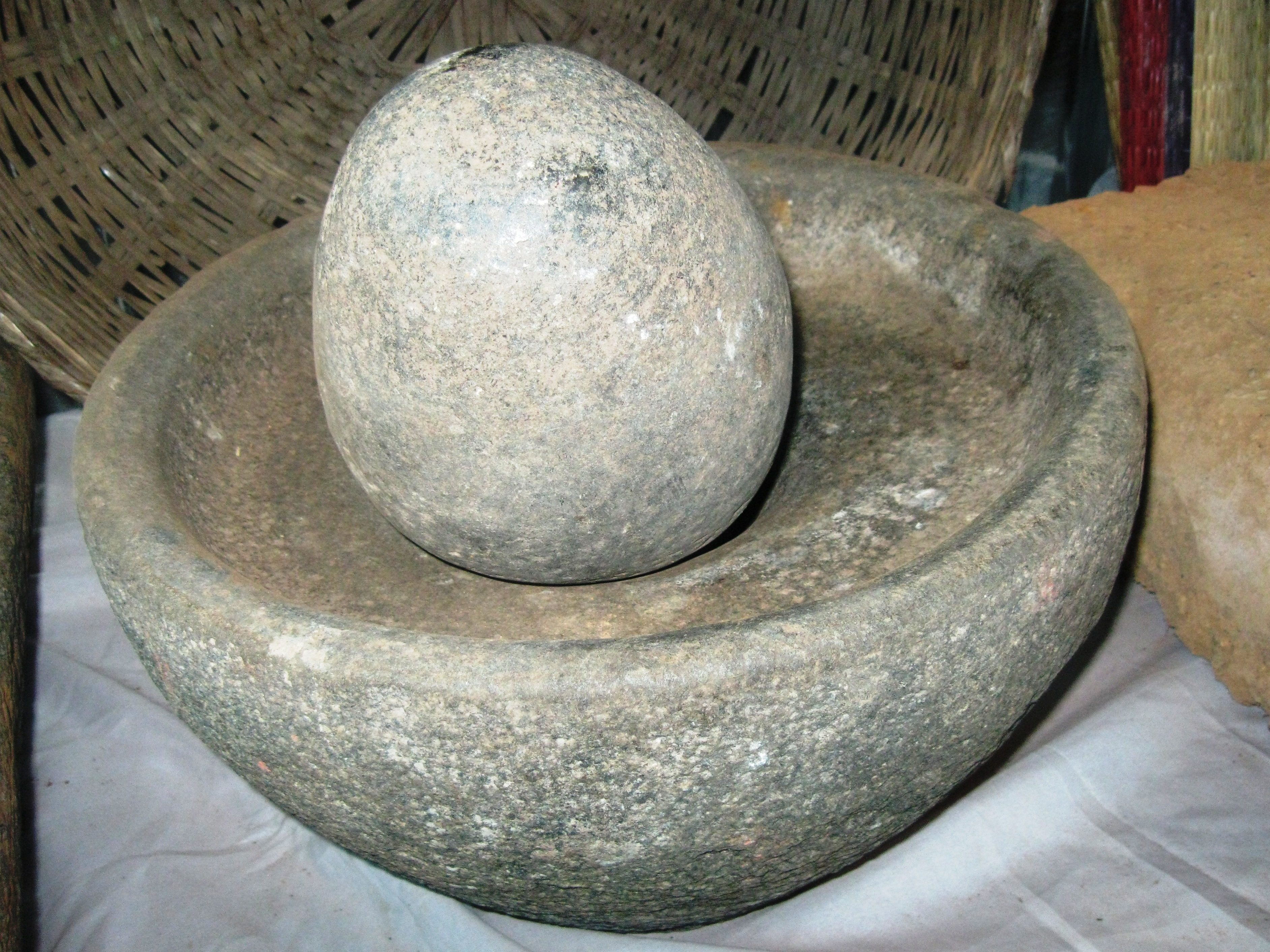 for graiting , kerala